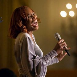 Singer Yolanda Adams performs at a reception for the Ford’s Theatre Abraham Lincoln Bicentennial Celebration in the East Room, White House, on Sunday, Feb. 11, 2007.